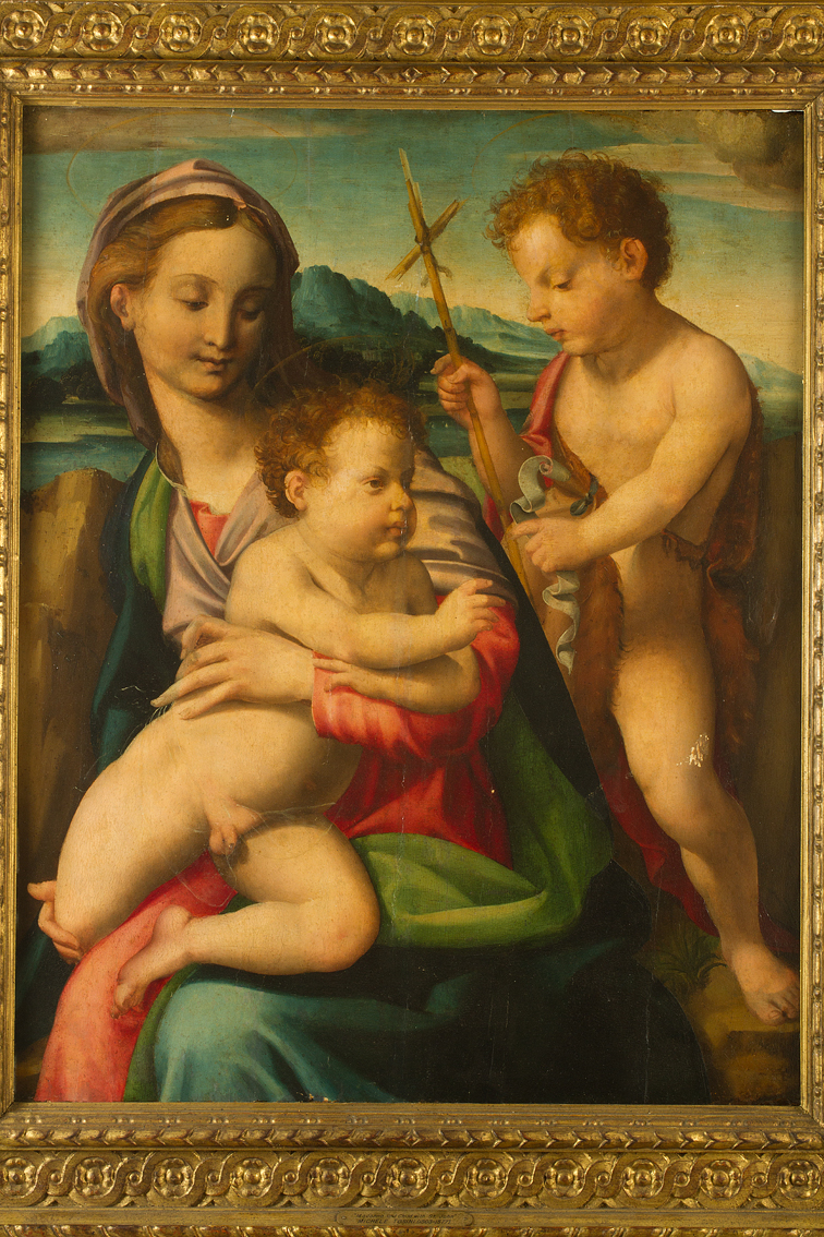 Madonna and Child with Saint John the Baptist